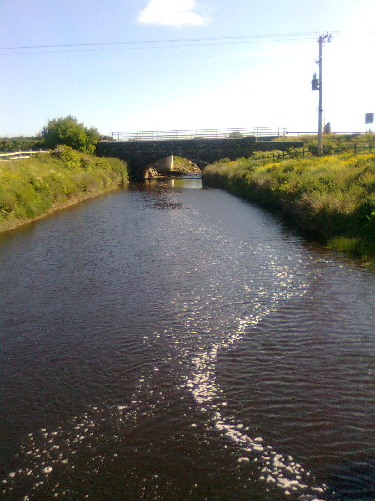 Munhin River, Carrowmore Lake, Erris, County Mayo. Summer 2010